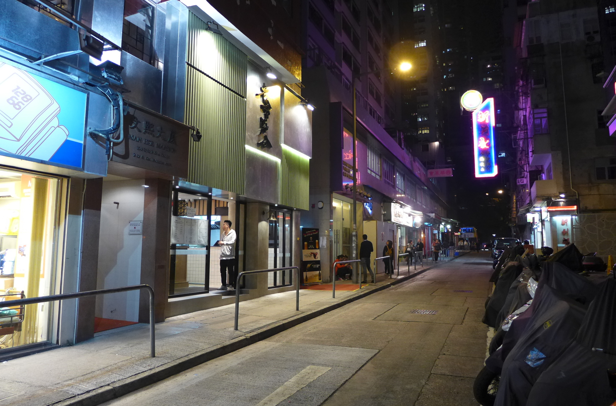 Landale Street